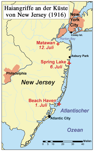 Map showing the Jersey Shore shark attacks of 1916, German version